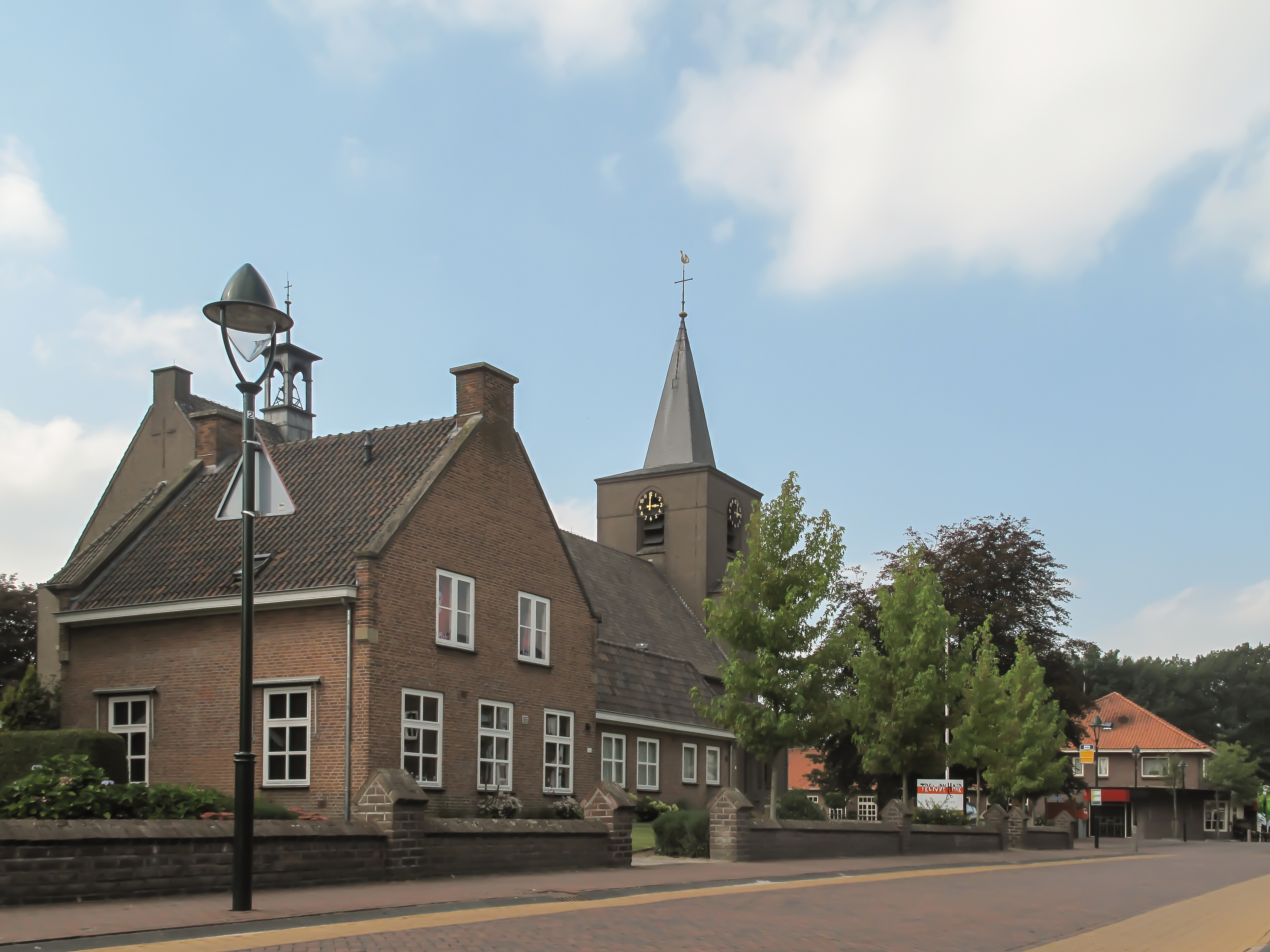 Reutum, church in the street